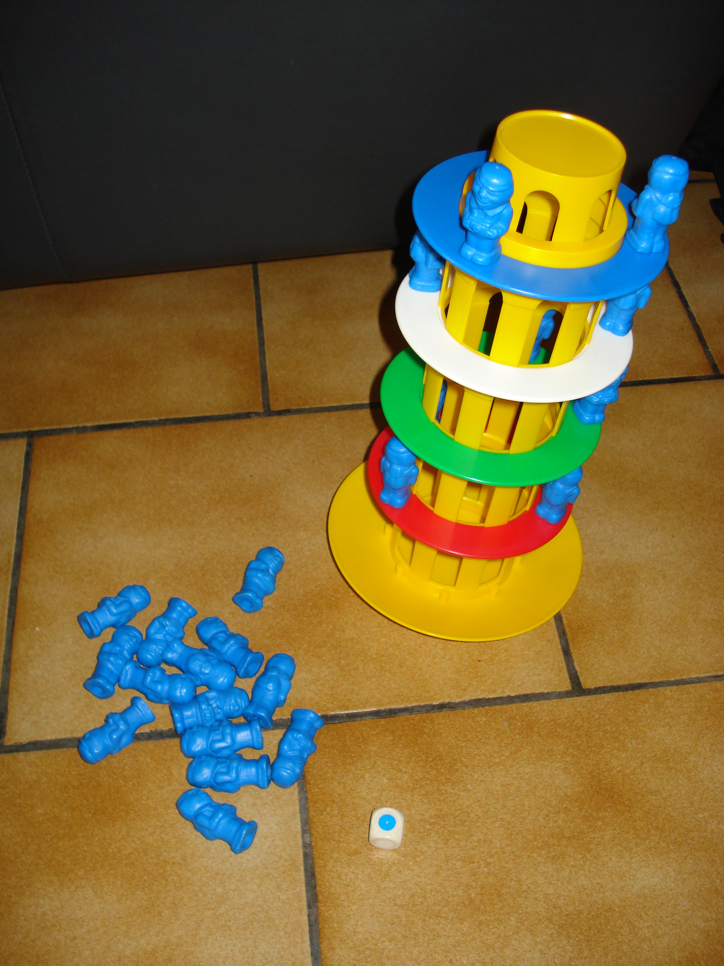 Pisa game